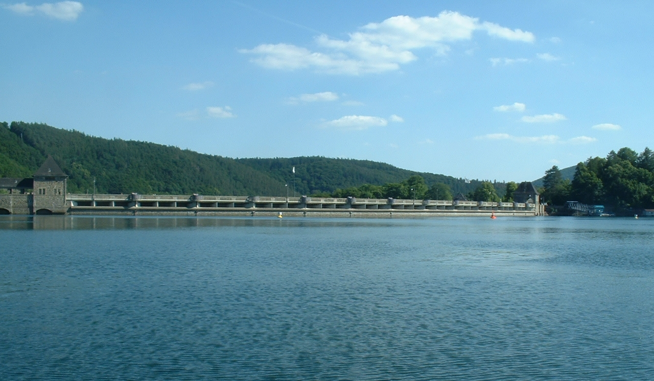 Picture of the dam of the Edersee taken from the northern side.